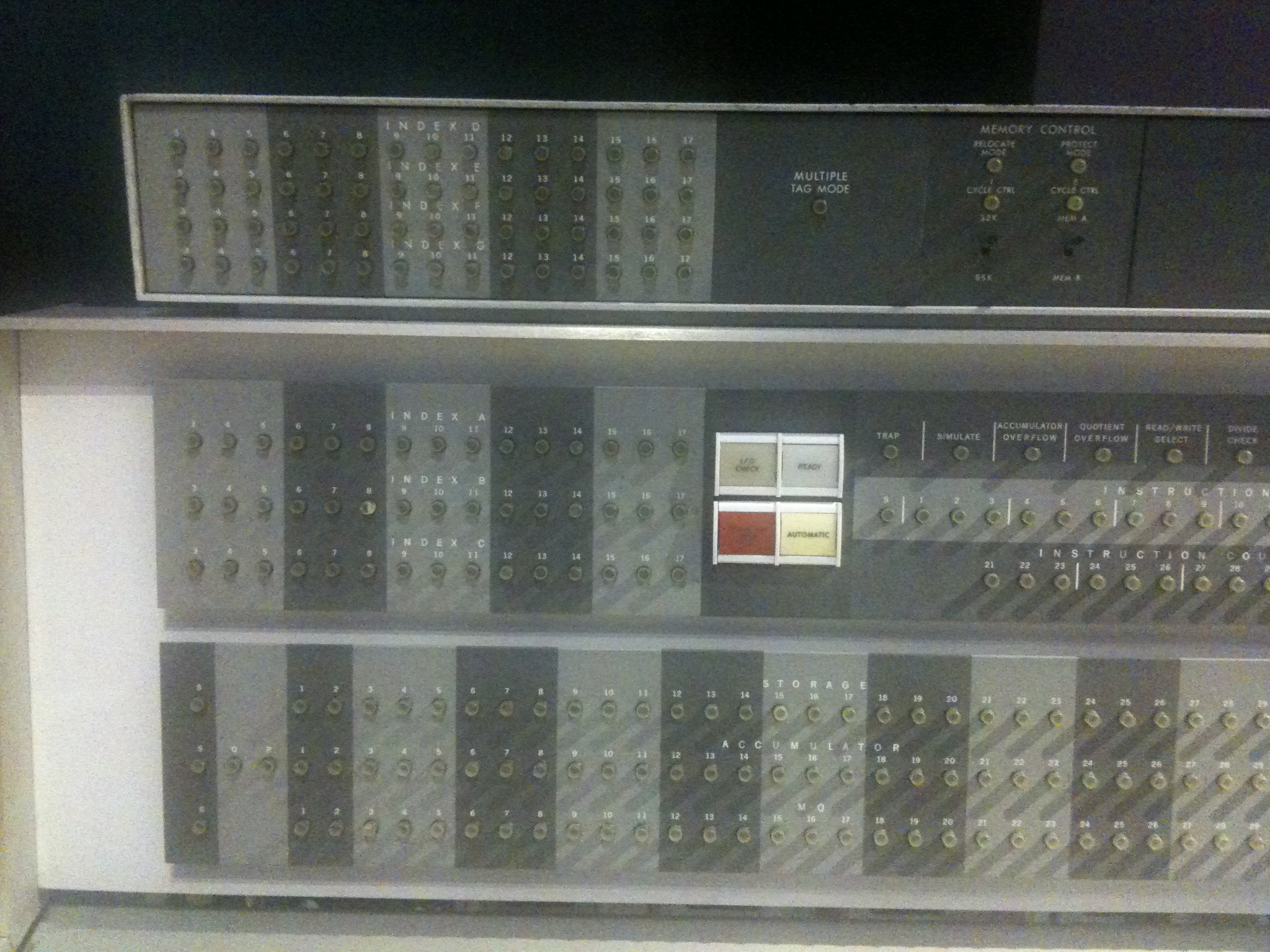 IBM 7094 operator's console showing additional index register displays. Photographed at the Computer History Museum.